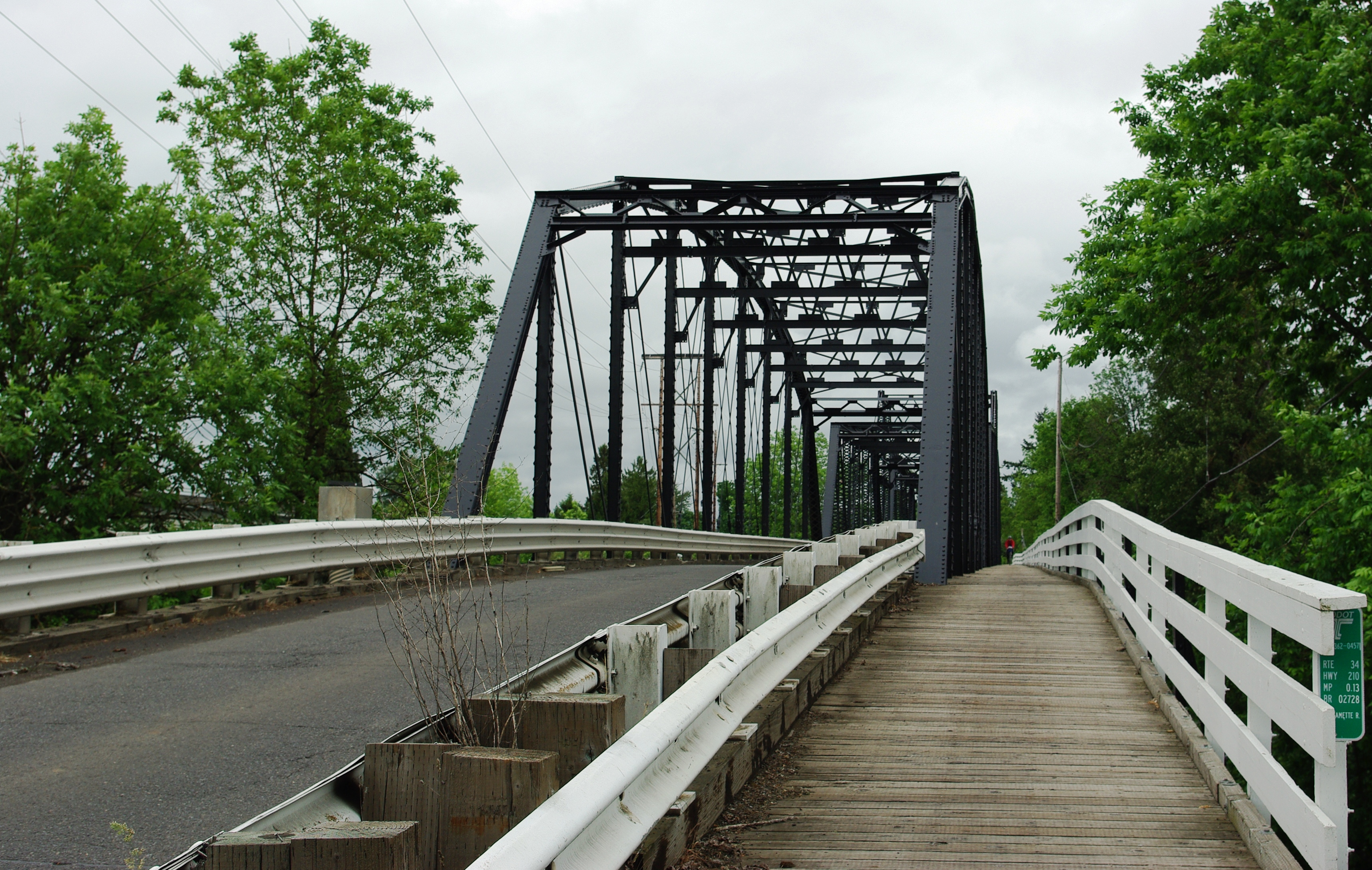 Van Buren Street Bridge in Corvallis, Oregon, USA